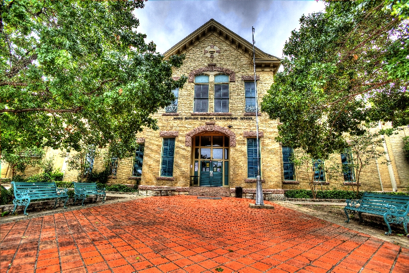 James Butler Bonham Elementary School, 925 S. St. Mary, San Antonio, TX